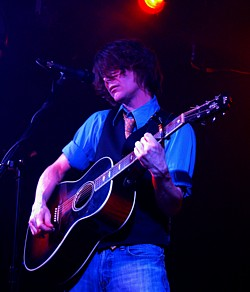 Jim Boggia at The Saint in Asbury Park, NJ 2